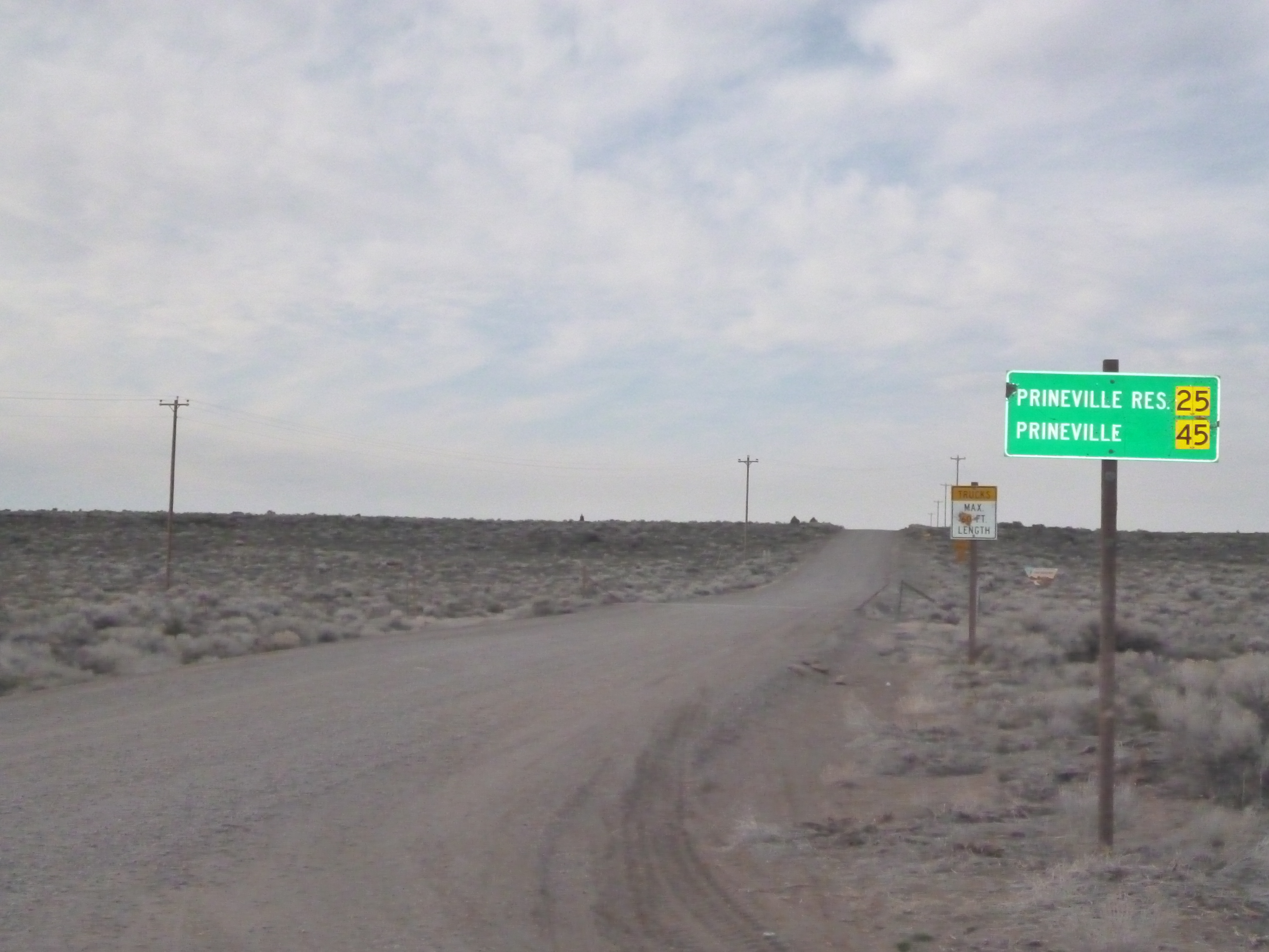 Southern Terminus of Oregon Route 27 near Brothers, Oregon.